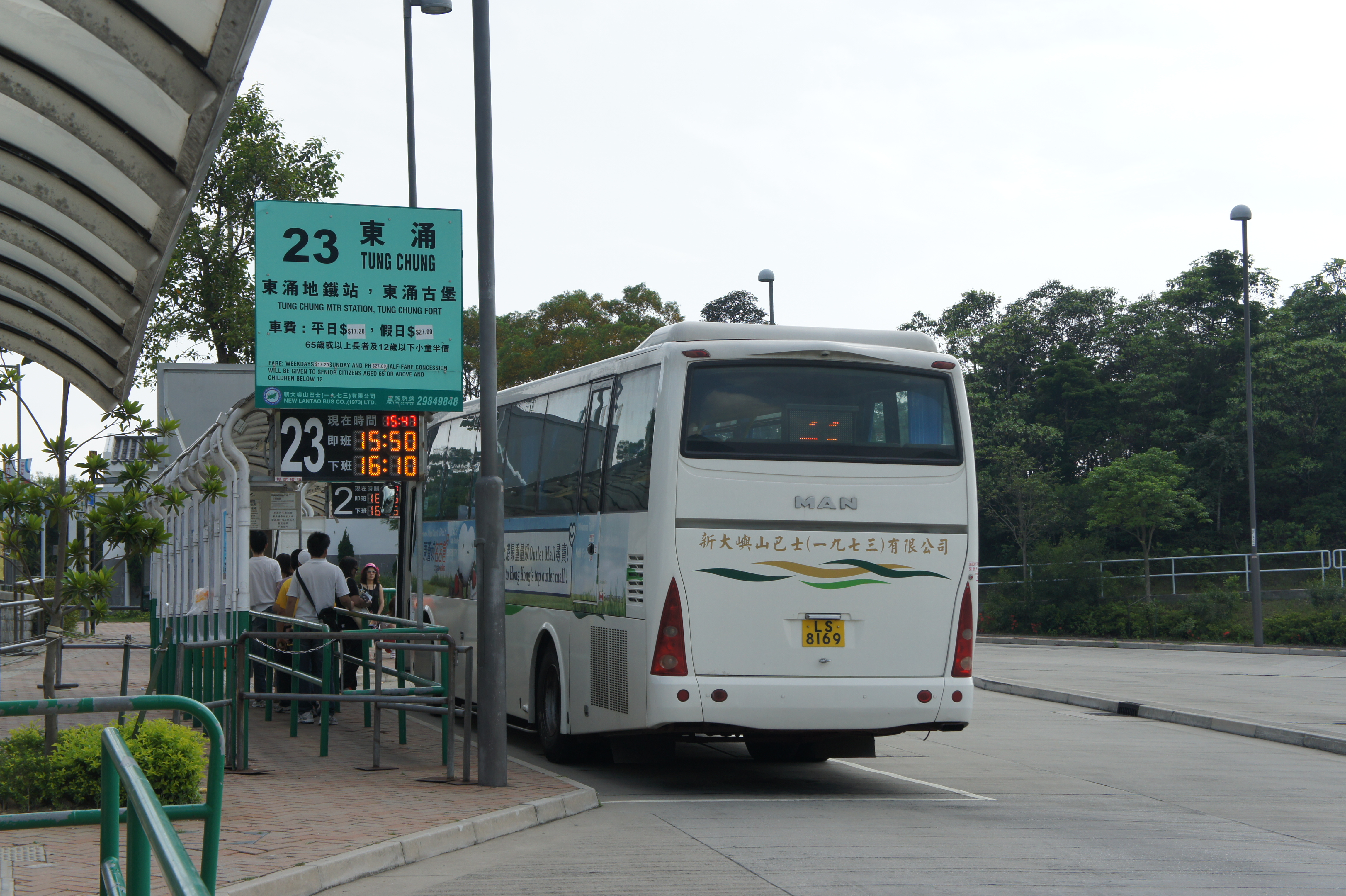 A New Lantao Bus (1973) Route 23 at the Ngong Ping Village bus terminal.